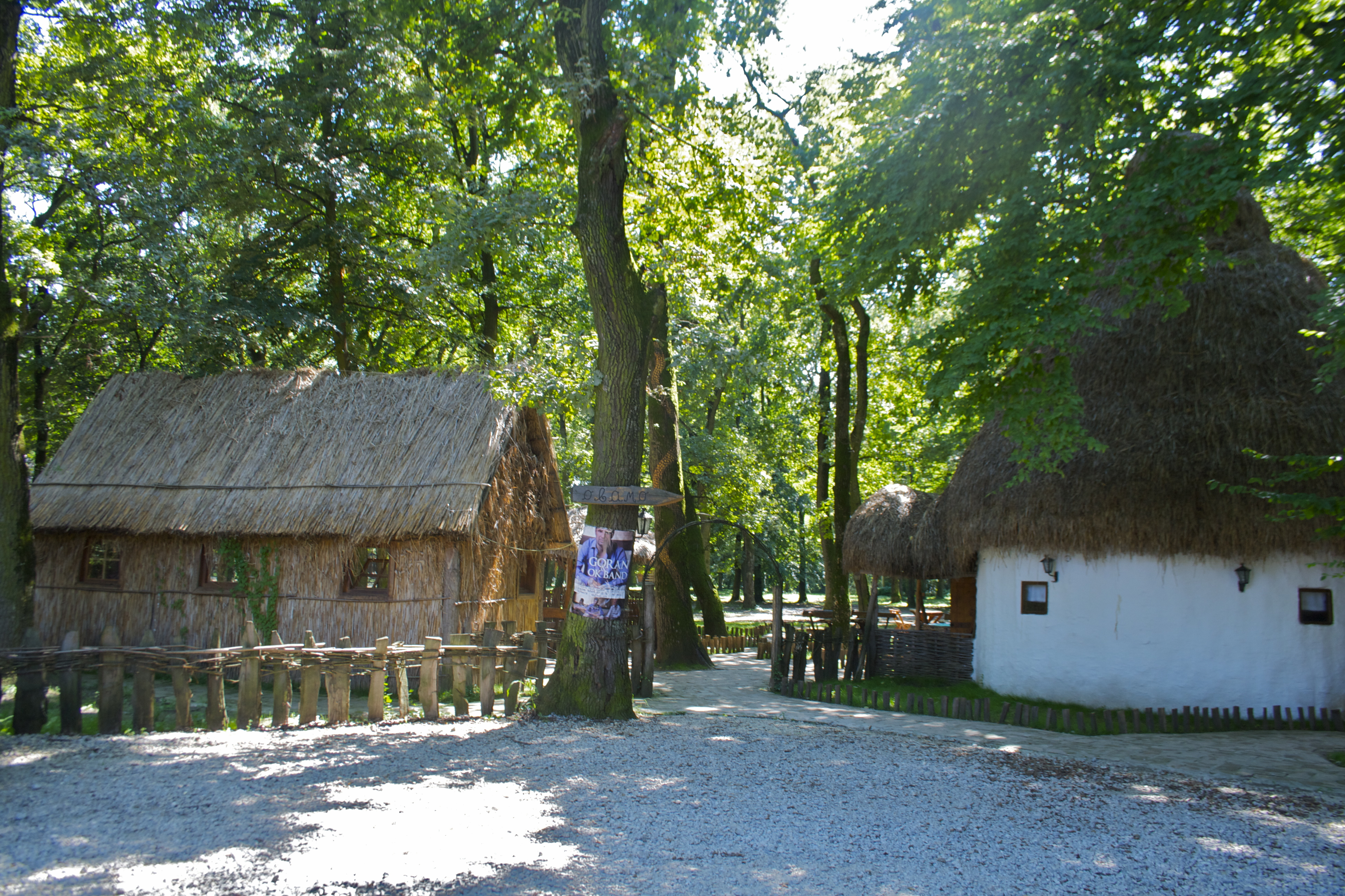 Етно ресторан Бојчинска Колеба у Бојчинској шуми